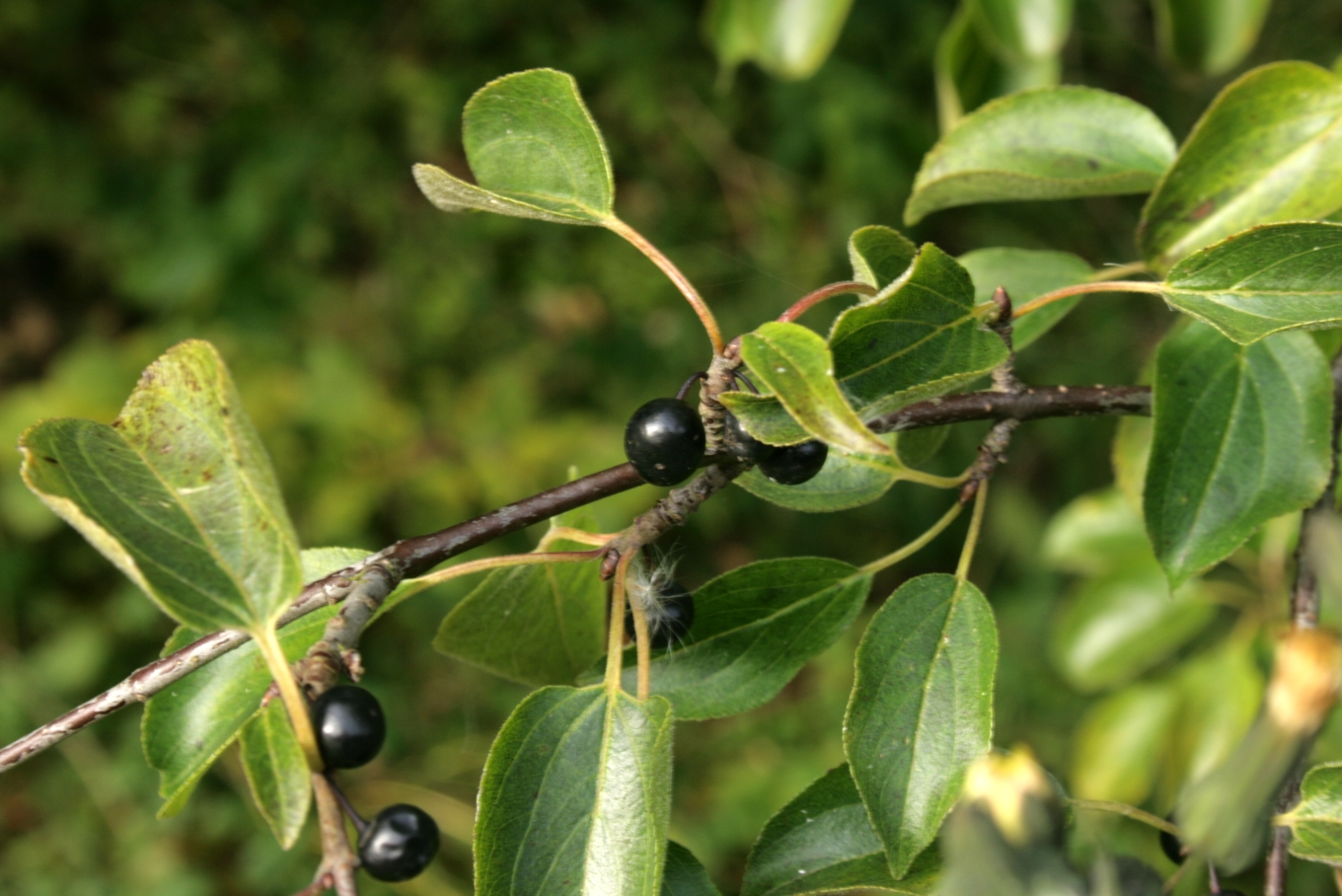 Rhamnus cathartica: Fruits